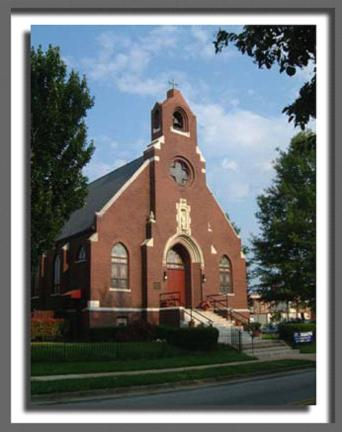 Saint Joseph Catholic Church located in Alexandria, Virginia. The Church is associated with Josephite Fathers, an order dedicated to serving Native and African American communities.